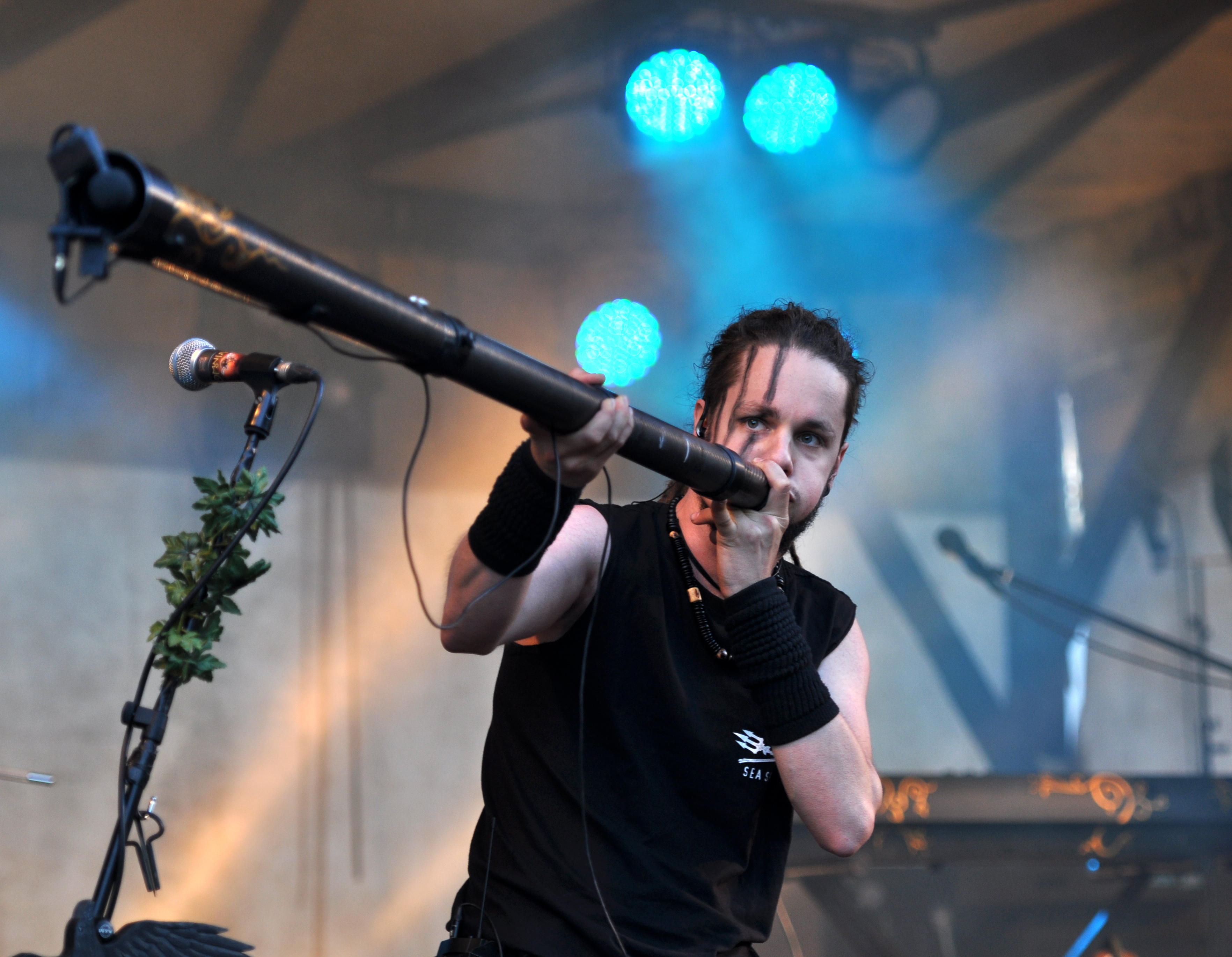 Omnia at medieval event Mittelalterlich Phantasie Spectaculum in Wassenberg, Germany, 2014